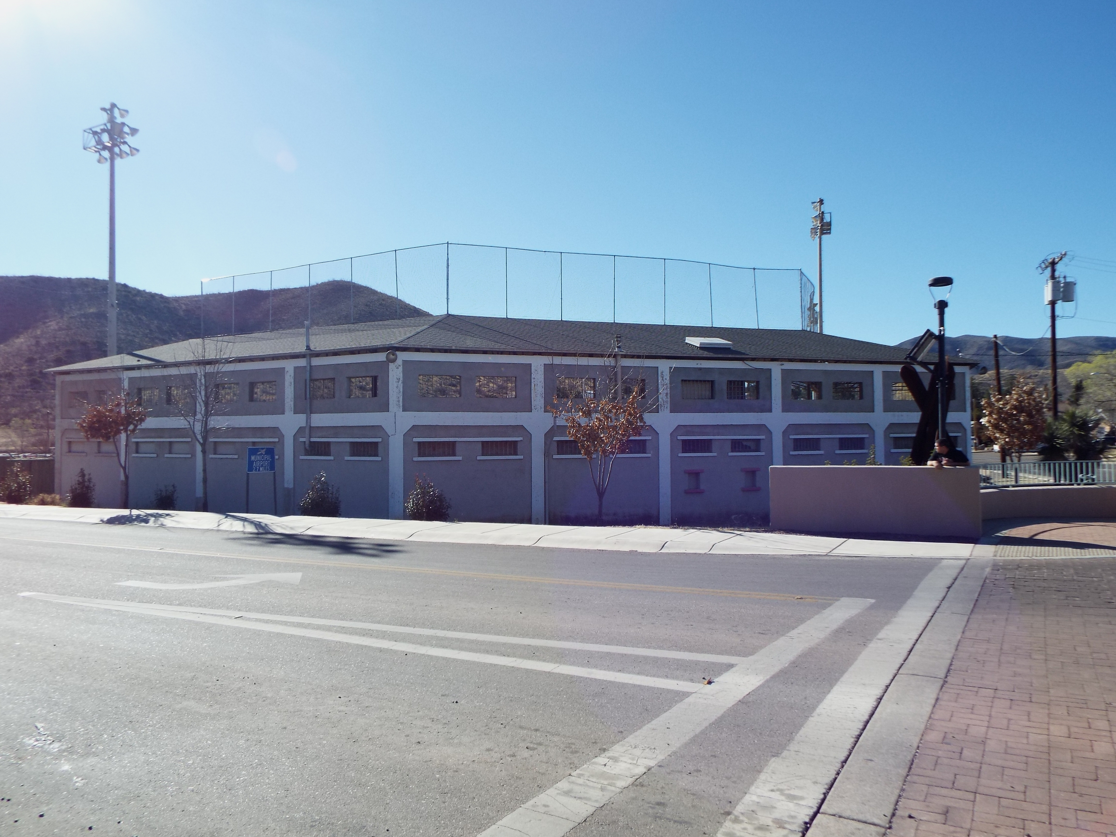 The Warren Ballpark was built in 1909 and is located in the corner of Arizona Street and Ruppe Road in Bisbee, Az. The Warren Ballpark is one of the oldest professional baseball stadiums in the United States. It has hosted John McGraw, Connie Mack, Honus Wagner, Hal Chase, Chick Gandil and Buck Weaver. It was listed in the National Register of Historic Places on October 15, 2010 as part of the Bisbee Residential Historic District